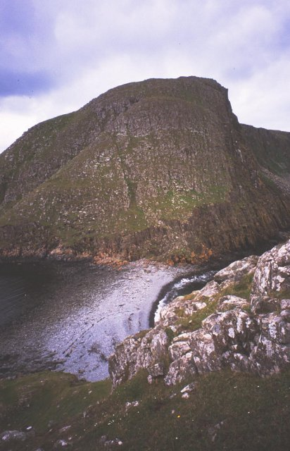 Beach between the Shiants. The two main islands of the Shiants (Garbh Eilean and Eilean nan Tigh) are joined by a beach which is sometimes inundated. The gap between the two steep islands is a motorway for auks. The Shiants are very rich in birdlife. Taken from above the house on Eilean nan Tigh, looking north to Garbh Eilean.